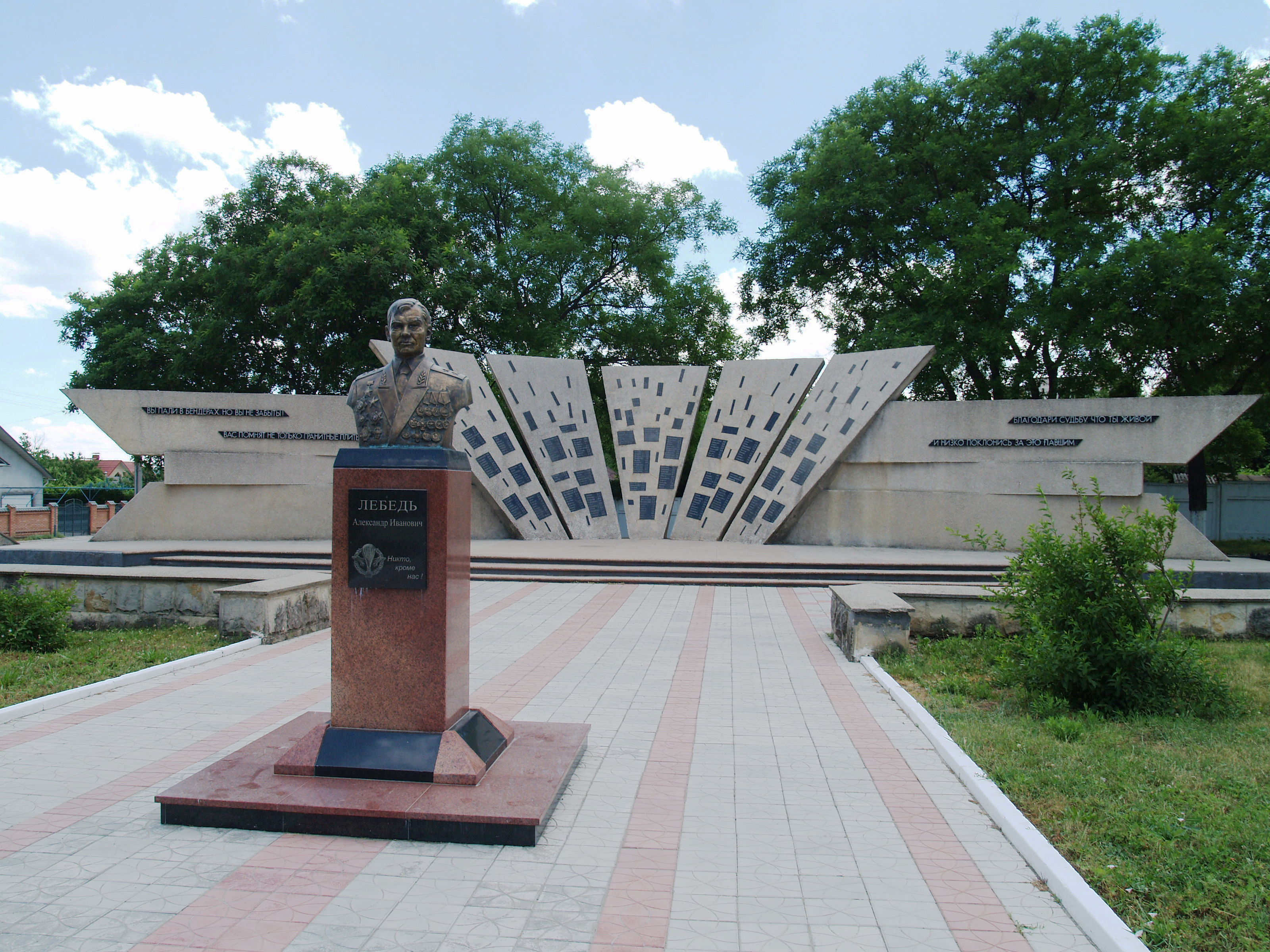 Memorial of Remembrance and Sorrow in Bender.